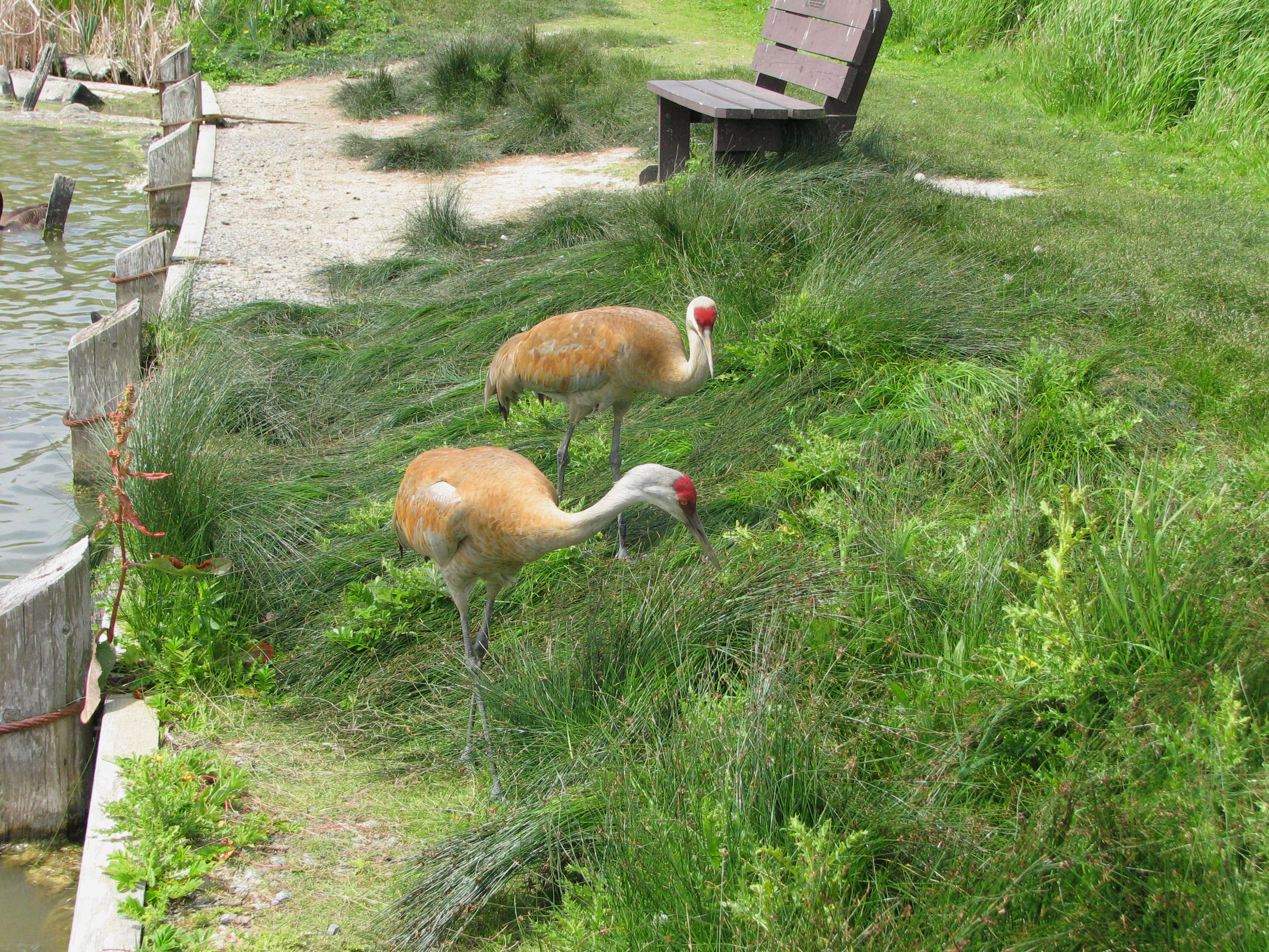 Mated pair of Sandhill Cranes Grus canadensis, Delta, British Columbia